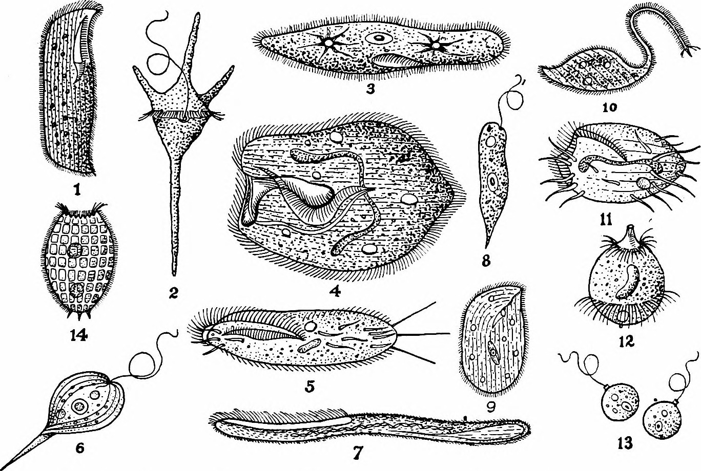 Title: Goldfish varieties and tropical aquarium fishes; a complete guide to aquaria and related subjects Year: 1917 (1910s) Authors: Innes, William T. (William Thornton), 1874-1969 Subjects: Aquariums; Goldfish Publisher: Philadelphia, Innes Text Appearing Before Image: TKOPICAL AQUARIUM FISHES 141 swim through the water by means of circlets of hairs or ciUa arising from the front of their heads, by the vibratile action of which they swim and disport themselves through the water. In fact, rotifers derive their name from the wheel-like appearance produced by the motion of the circlets of cilia while feeding and swimming. For culture water to have practical food value a single drop should contain at least half a dozen living objects that can be seen in the manner suggested. Water rich in life will show rotifers so thickly that they almost touch one another—probably two hundred in a small drop. In taking water from the culture tank to feed the fish it should be skimmed from the surface, Text Appearing After Image: Fig. 96. Common Forms of Microscopic Anim.\l Life in Freshw.\ter (Greatly magnified) 1. LoxODES, a very common form. 2. Ceratium, a very common form, especially in ponds and lakes. 3. Par.\maecium, a very common form, the slipper animalcule. 4. BuRSARiA, a very common form, one of the largest. 5. Stylonycha, a very common form, found everywhere. 6. Phacus, not so common as the above numbers. 7. Spirostomum, common everywhere. 8. Euglena, common everywhere. 9. Chilodon, common everywhere. 10. Trachelocerca, common everywhere, the swan animalcule. 11. EupoLOTES, not an aquarium in America without examples. 12. Didinium, predacous, feeds on paramaecium and others. 13. Trachelocerca, small but plentiful. 14. CoLEPS, the barrel animalcule, common.